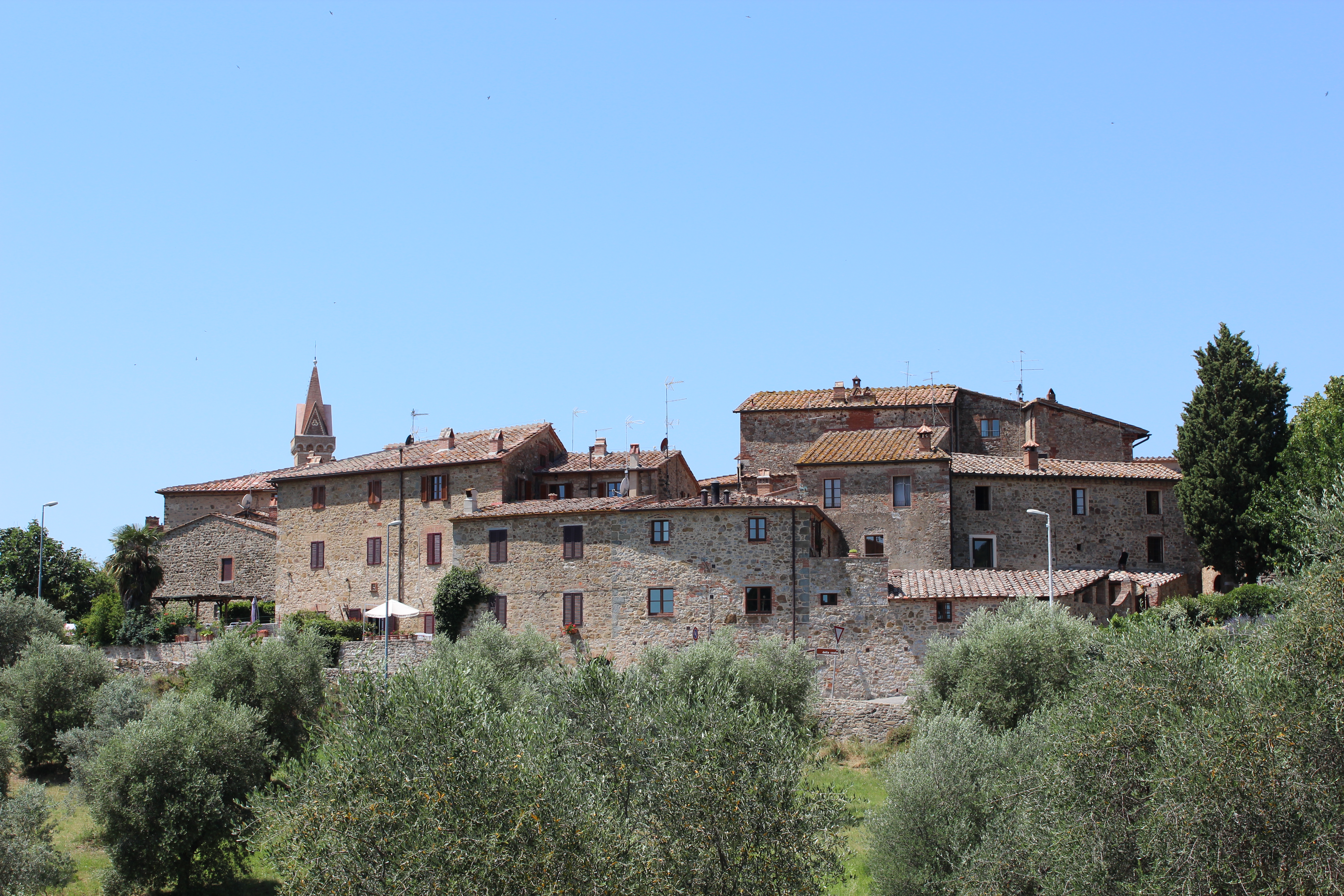 Panorama of San Gusmè, hamlet of Castelnuovo Berardenga, Chianti, Province of Siena, Tuscany, Italy